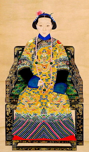 Portrait of Empress Dowager Ci'an (1837-1881)